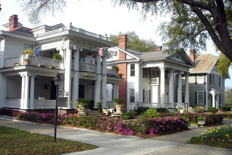 Historic Hampton neighborhood, Columbia, South Carolina, USA